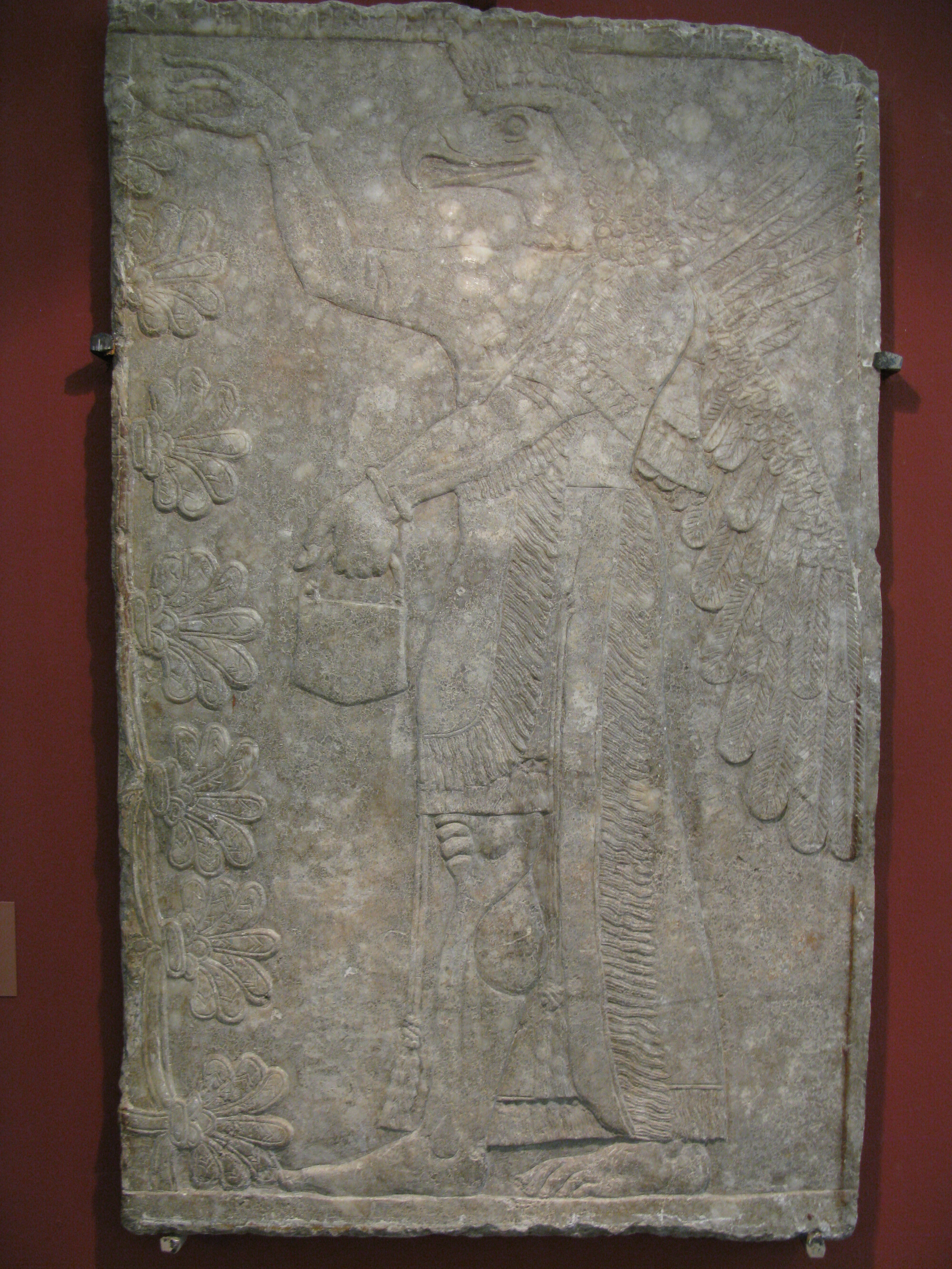 "Bird-headed deity by the sacred tree", a relief from the palace of Ashurnasirpal II at Kalhu, Nimrud. Alabaster, 9th century BC. Hermitage Museum, Saint Petersburg, Russia